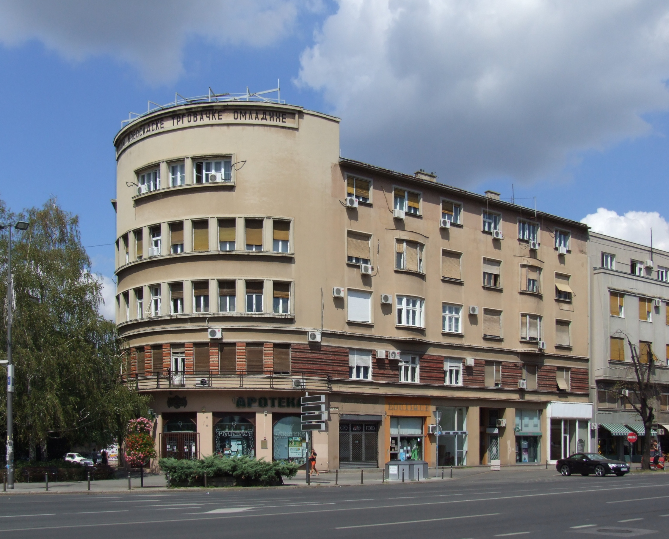 Novi Sad (Újvidék, Neusatz, Нови Сад) - Bulevar Mihajla Pupina